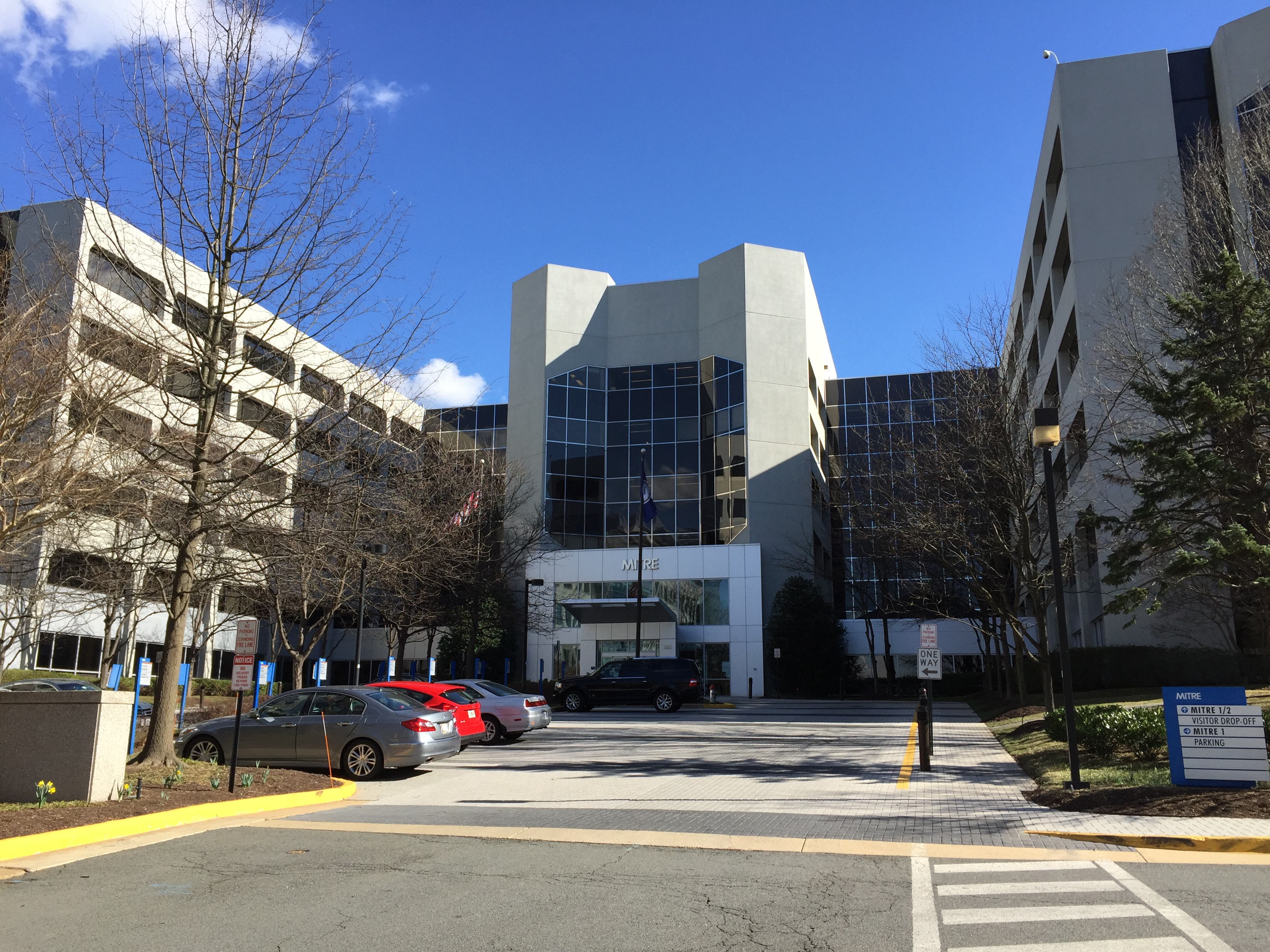 MITRE building in McLean, Virginia in 2017